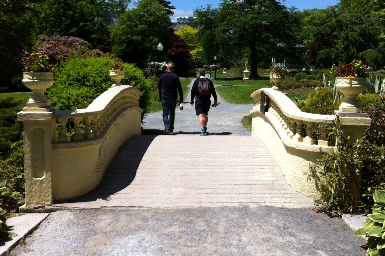 Francis Fitzgerald Bridge Halifax Public Garden Nova Scotia